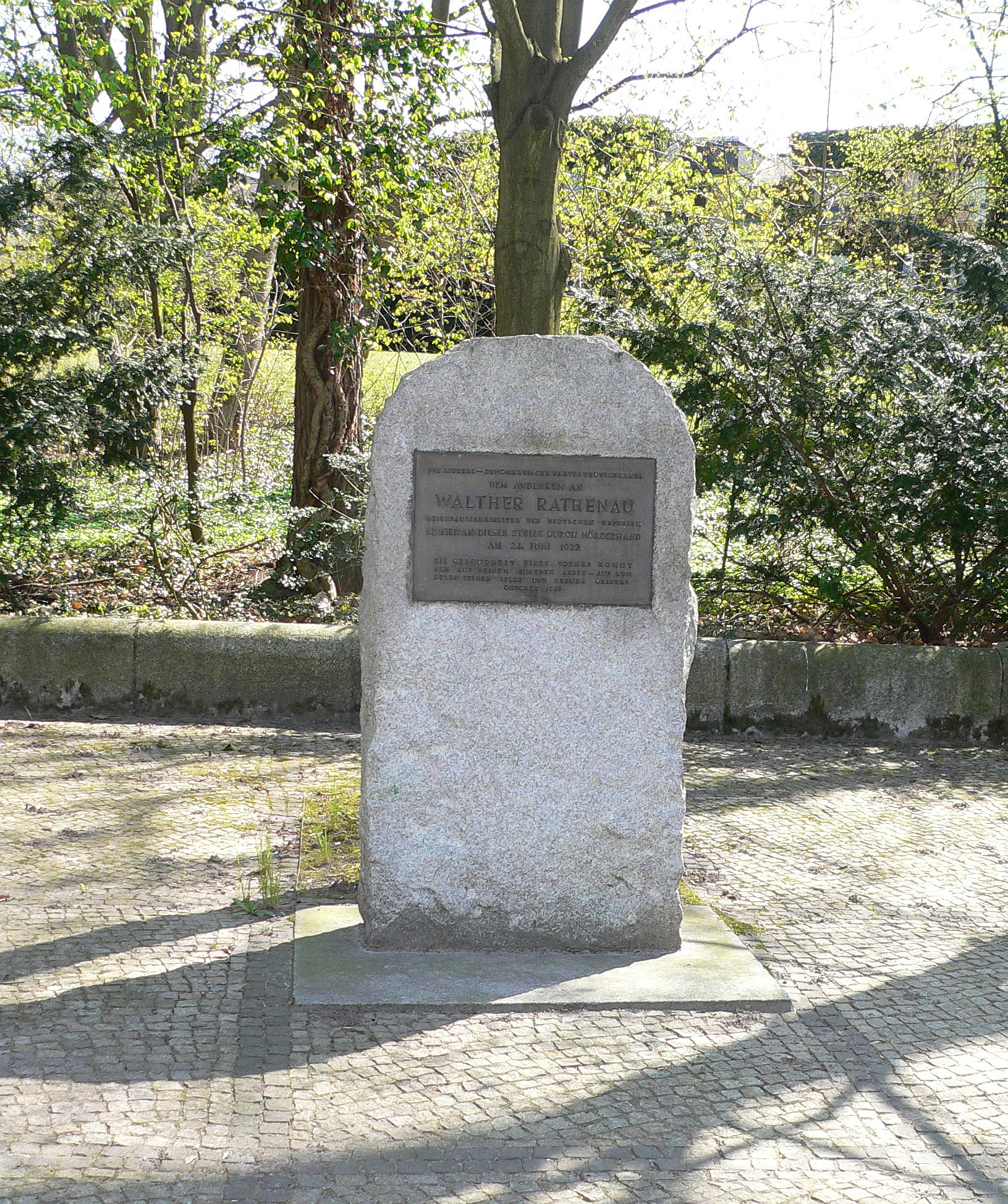 Berlin, Germany: Memorial for Walter Rathenau at Koenigsallee and Erdener Straße. 14193 Berlin, enthüllt am 1.10.1946 Inscription of the bronze plate: Die Liberal-Demokratische Partei Deutschlands Dem Andenken an WALTHER RATHENAU Reichsaußenminister der deutschen Republik Er fiel an dieser Stelle durch Mörderhand am 24. Juni 1922 Die Gesundheit eines Volkes kommt nur aus seinem inneren Leben Aus dem Leben seiner Seele und seines Geistes Oktober 1946